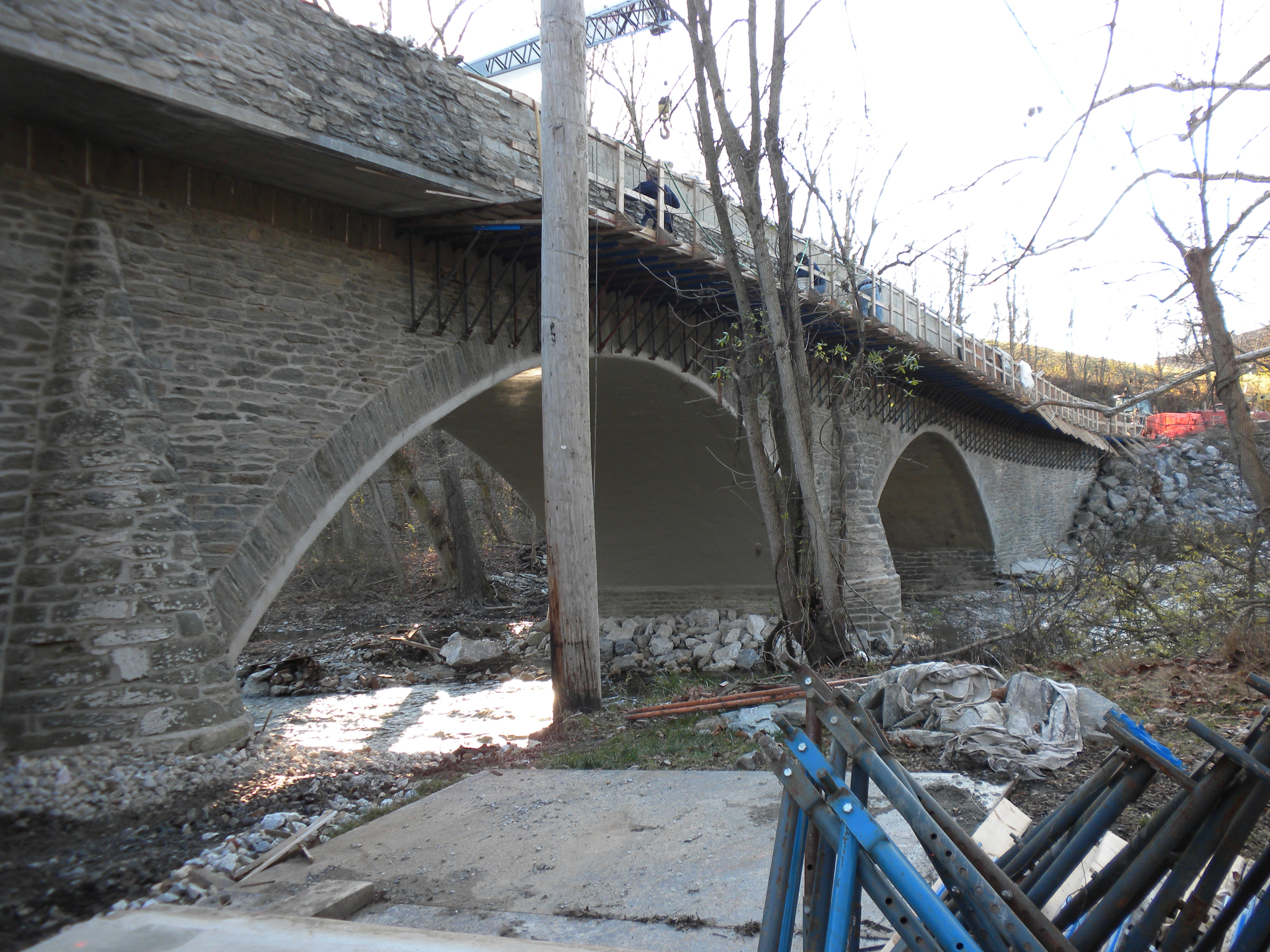 Mortonville Bridge in Mortonville, PA Chester County. Small, small town near West Chester. Bridge over West fork of Brandywine Creek carrying Strasburg Road. Right now the bridge is "out" and they are doing reconstruction. On NRHP. This photo is my own work and I donate it to the public domain.